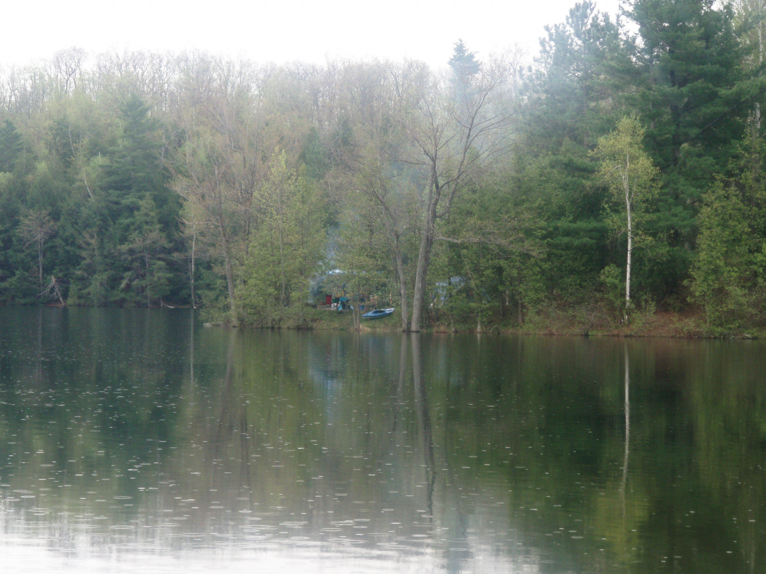 Taken from a kayak on Black Lake looking at camp site 121 a popular camp site. Due to its views of Black Lake at Sharbot Lake Provincial Park